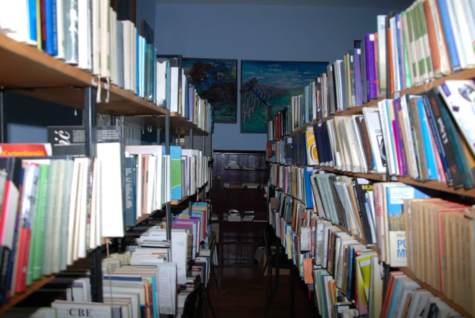 Library Srboljub Mitić - Malo Crniće